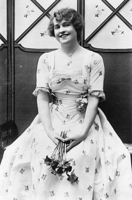 Depicted person: Shirley Kellogg – American actress